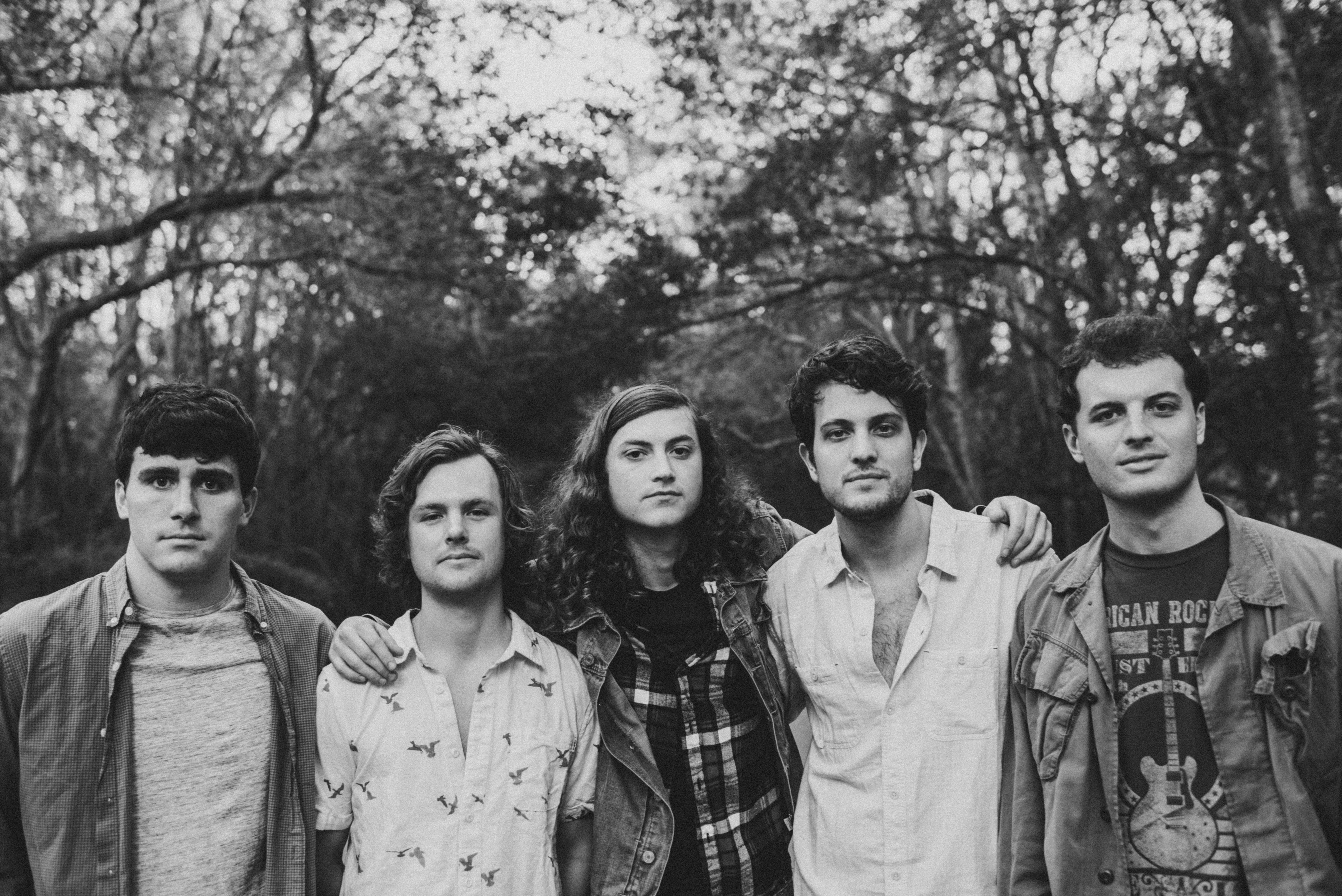 Atlas Road Crew Portrait